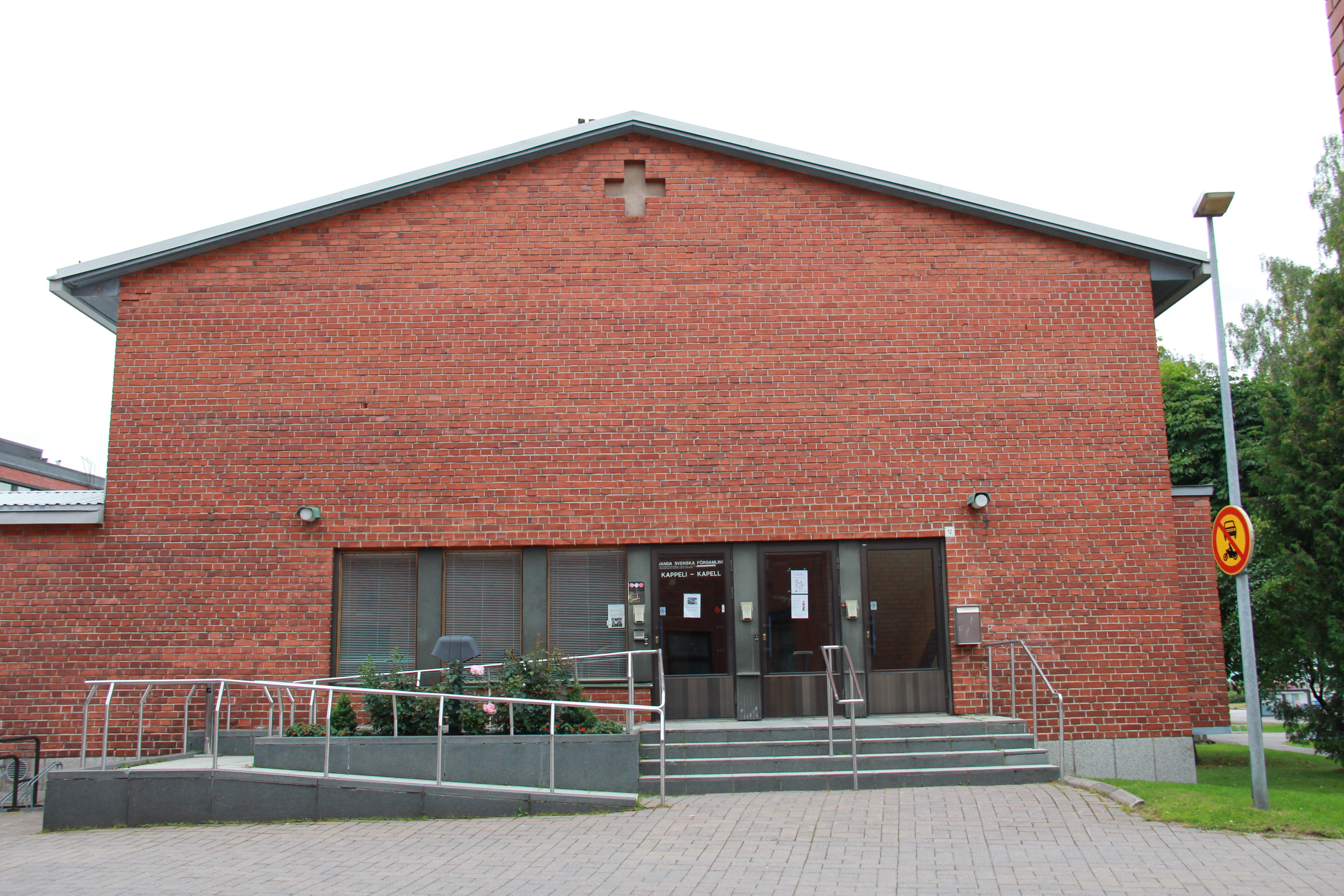 Tikkurila church, Vantaa Finland. Architects Leena and Kalle Niukkanen. Completed in 1956. Entrance to chapel.